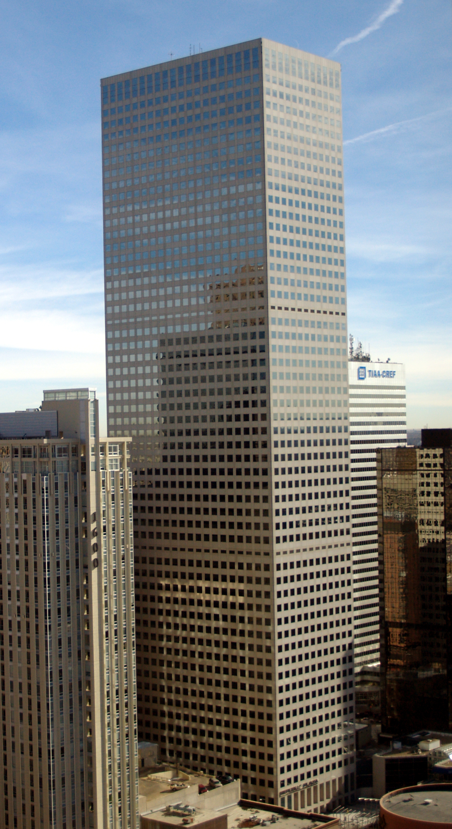 Republic Plaza in Denver, Colorado.